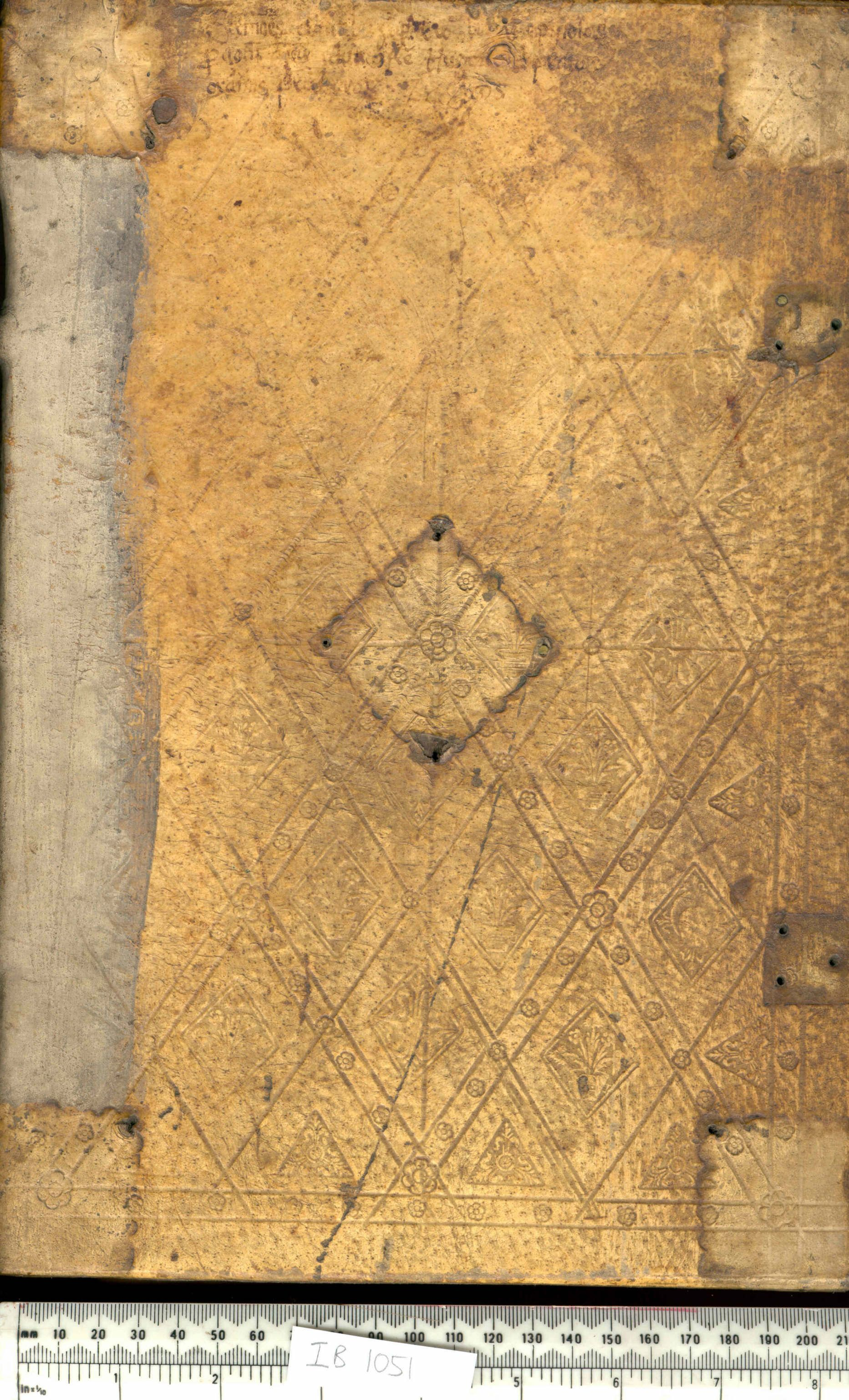 Style: Christs head motif|Diaper|Pot of flowers motif|Single tools design; Caption: Upper cover; Colour: White / cream; Edge: Unspecified